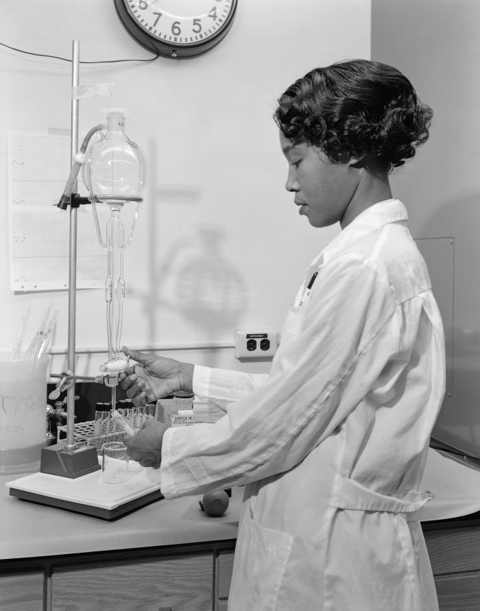 ID#: 12013 Description: This historic image created in 1964, depicted laboratory technician, Dorothy Roland at work in one of the Centers for Disease Control’s laboratories, carrying out standard laboratory practices. In this particular image she was adding a precise amount of liquid to a test tube, by manipulating a stopcock at the end of what appeared to be a modified separation flask. Modern day protocols now call for the laboratorian executing such tasks, to wear personal protective equipment (PPE) including safety goggles, gloves, and a face mask. High Resolution: Right click here and select "Save Target As..." for hi-resolution image (6.29 MB) Content Providers(s): CDC/ Dorothy Roland Creation Date: 1964 Photo Credit: Links: Categories: CDC Organization MeSH Biological Sciences Biological Sciences Biochemistry Physical Sciences Natural Sciences Biological Sciences Biochemistry Chemistry Biochemistry Chemistry, Clinical Copyright Restrictions: None - This image is in the public domain and thus free of any copyright restrictions. As a matter of courtesy we request that the content provider be credited and notified in any public or private usage of this image.